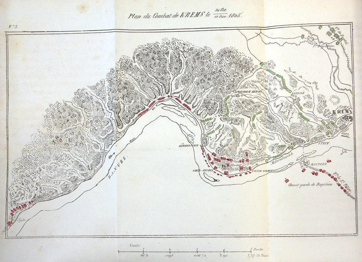 Map of Battle of Duerenstein, 11 November 1805. This was published in Michailowsky-Danilewsky, Relation de la Campagne de 1805 (Austerlitz). Paris, 1846.